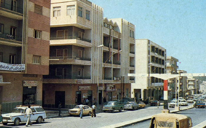 Al Oroba at 1970 is the longest street in the city of Al Bayda City of Libya ...